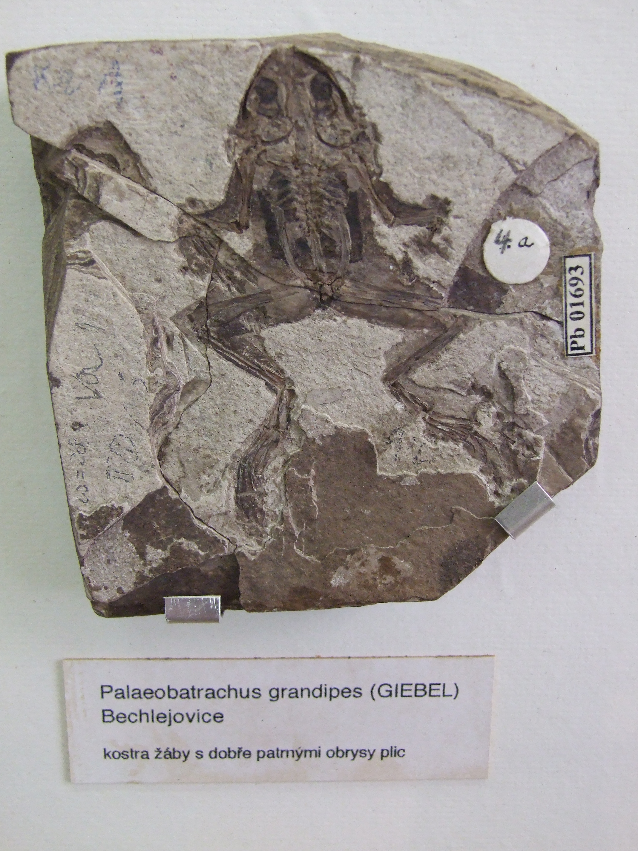 Fossil Palaeobatrachus grandipes in the Palaeontological exhibition, National Museum in Prague